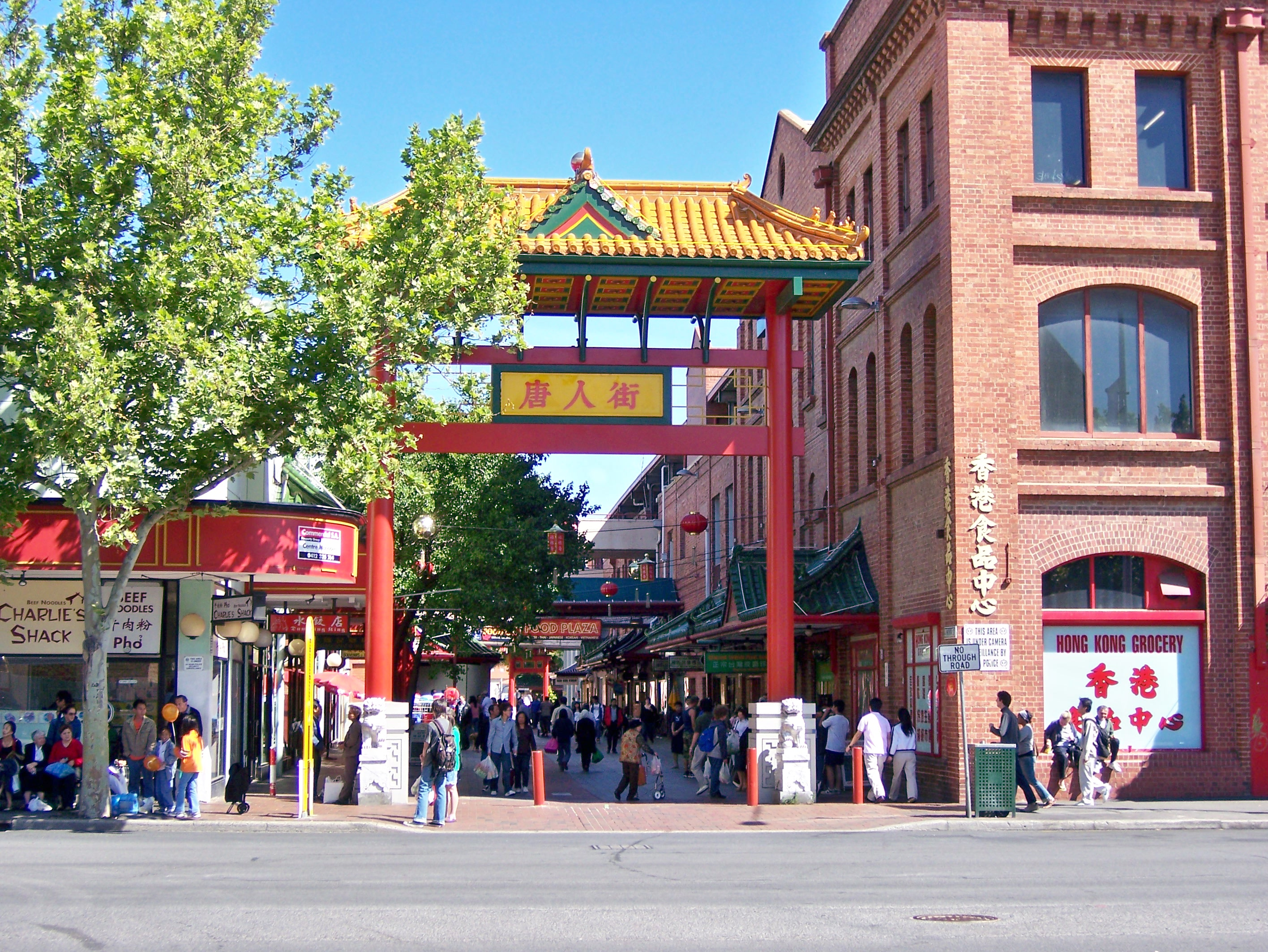 Grote Street entrance to Adelaide Chinatown.